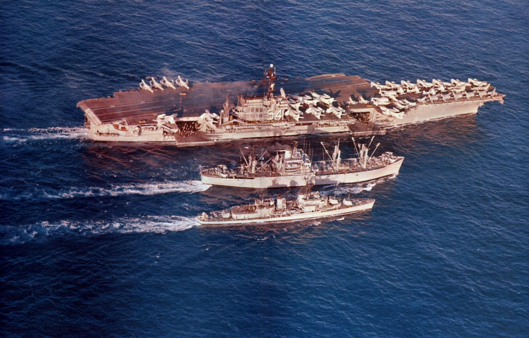 The U.S. Navy aircraft carrier USS Constellation (CVA-64) with aircraft of Attack Carrier Air Wing 14 (CVW-14) on deck during an underway replenishment during the carrier's deployment to the Western Pacific and Vietnam from 5 May 1964 to 1 February 1965. The Allen M. Sumner-class destroyer USS Blue (DD-744) is also being replenished.